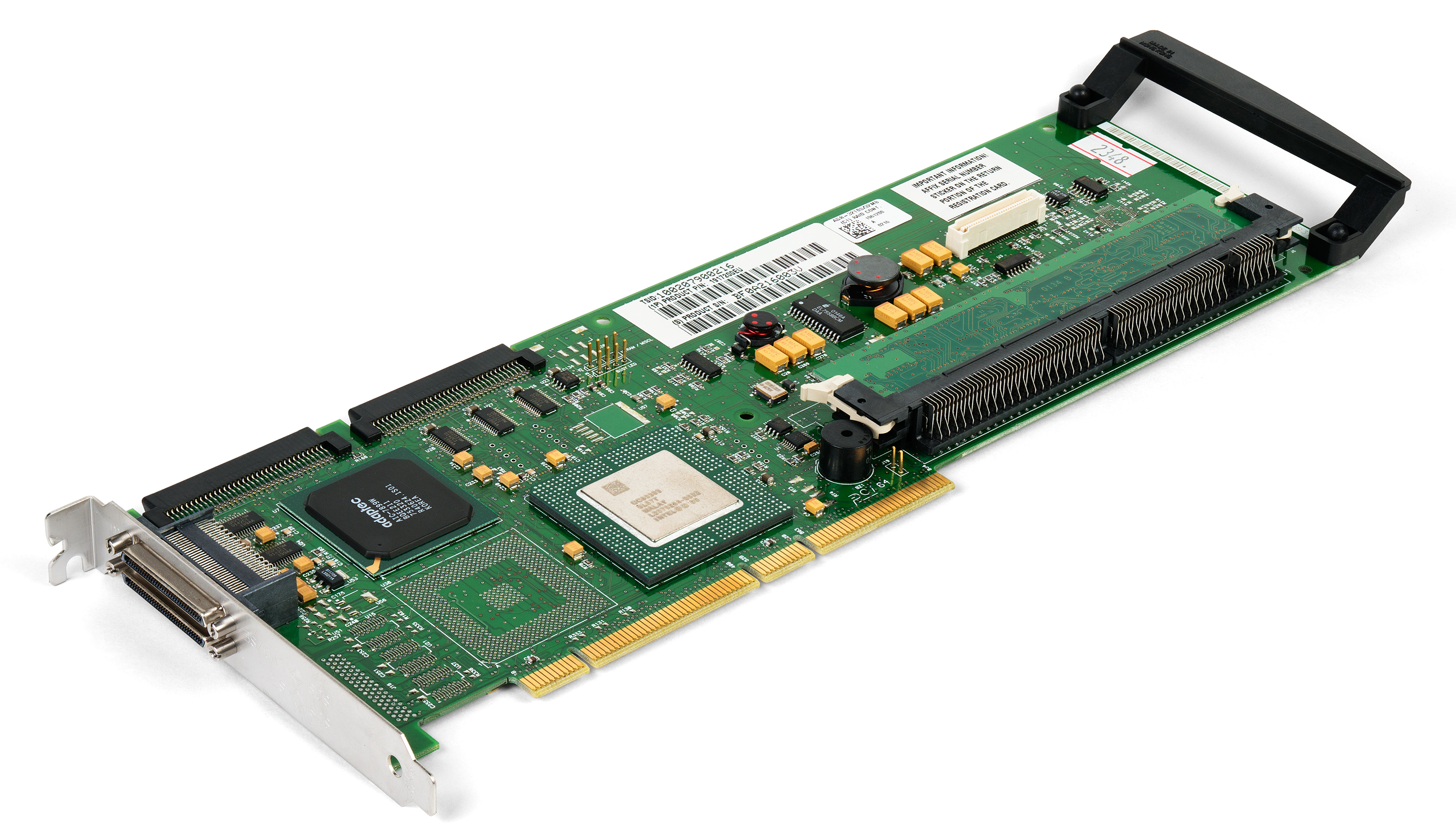 Adaptec 3210S two-channel Ultra160 SCSI RAID controller. PCI-64 expansion card. RAID levels 0, 1, 0/1, 5, 0/5 and JBOD 64-bit/66MHz PCI Two 68-pin VHDCI external and two 68-pin HD internal parallel SCSI connectors Intel 80303 processor